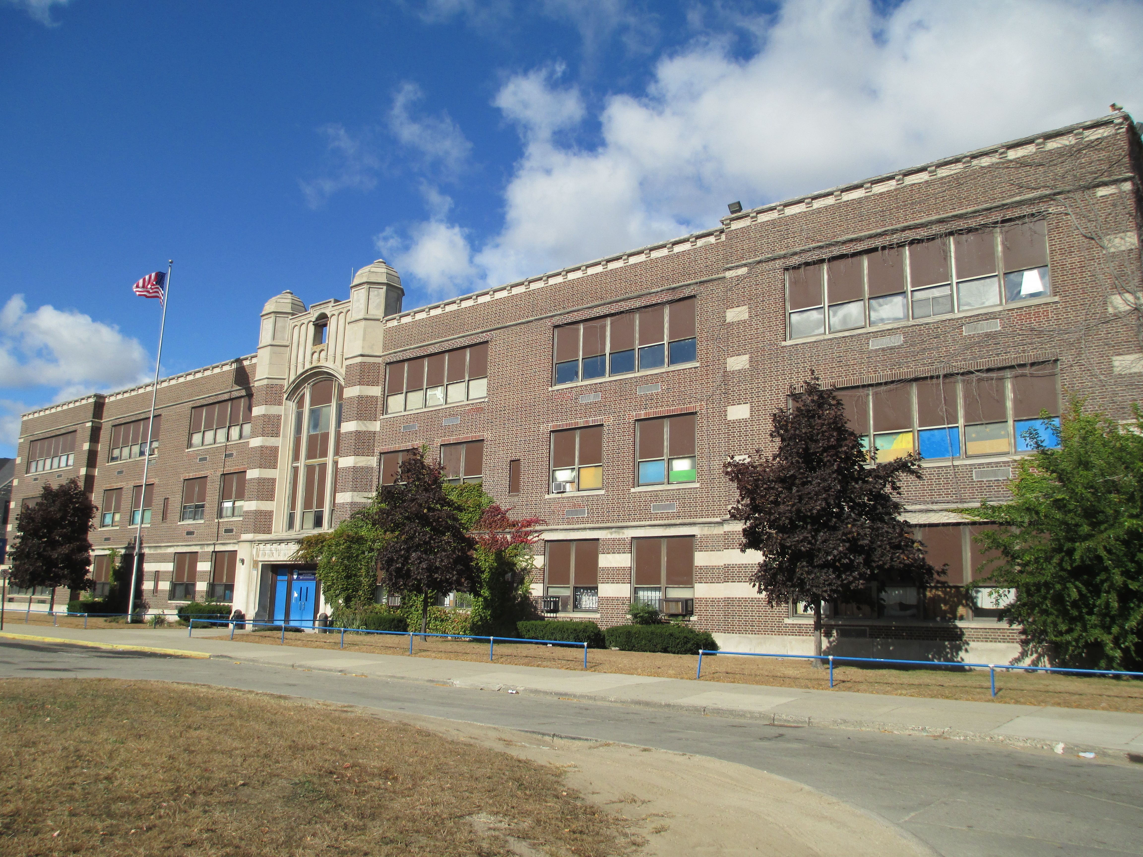 Front of Highland Park Renaissance Academy Barber Campus of Highland Park Schools. 45 E. Buena Vista Highland Park, MI 48203